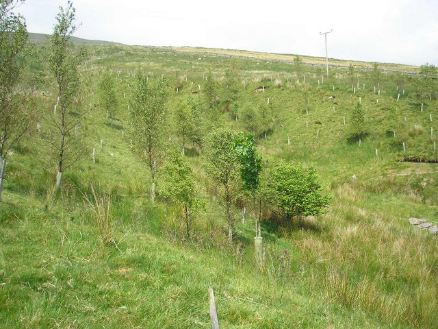 Reforestation - progressing One of several examples in the area of small-scale reforestation. The gill has been fenced to exclude sheep and a mixed deciduous planting has been established. Three years after the previous photograph.